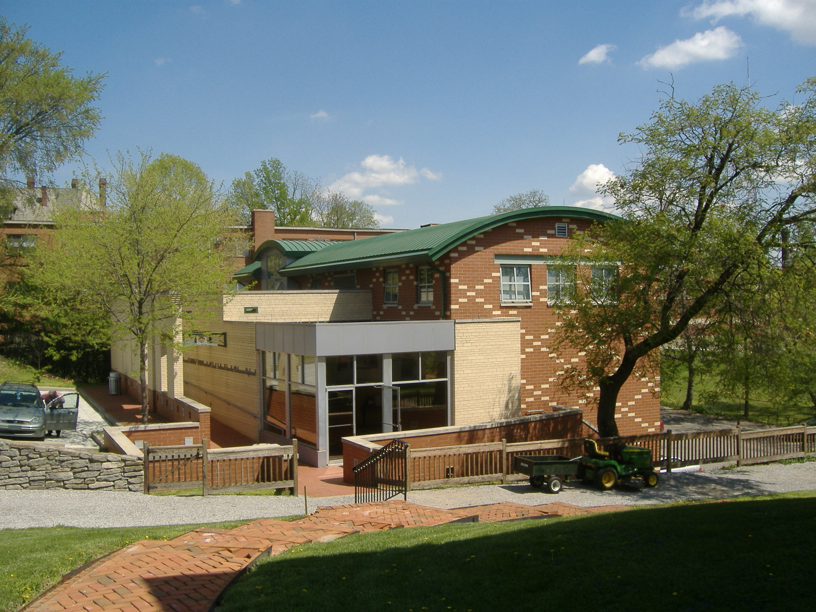 Visitor Center of William Howard Taft National Historic Site in Cincinnati, Ohio